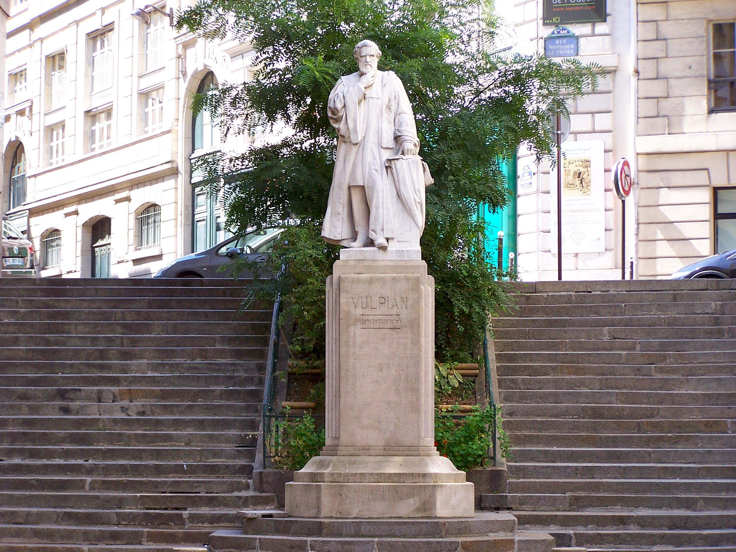 La statue Alfred-Vulpian dans la rue Antoine-Dubois, Paris